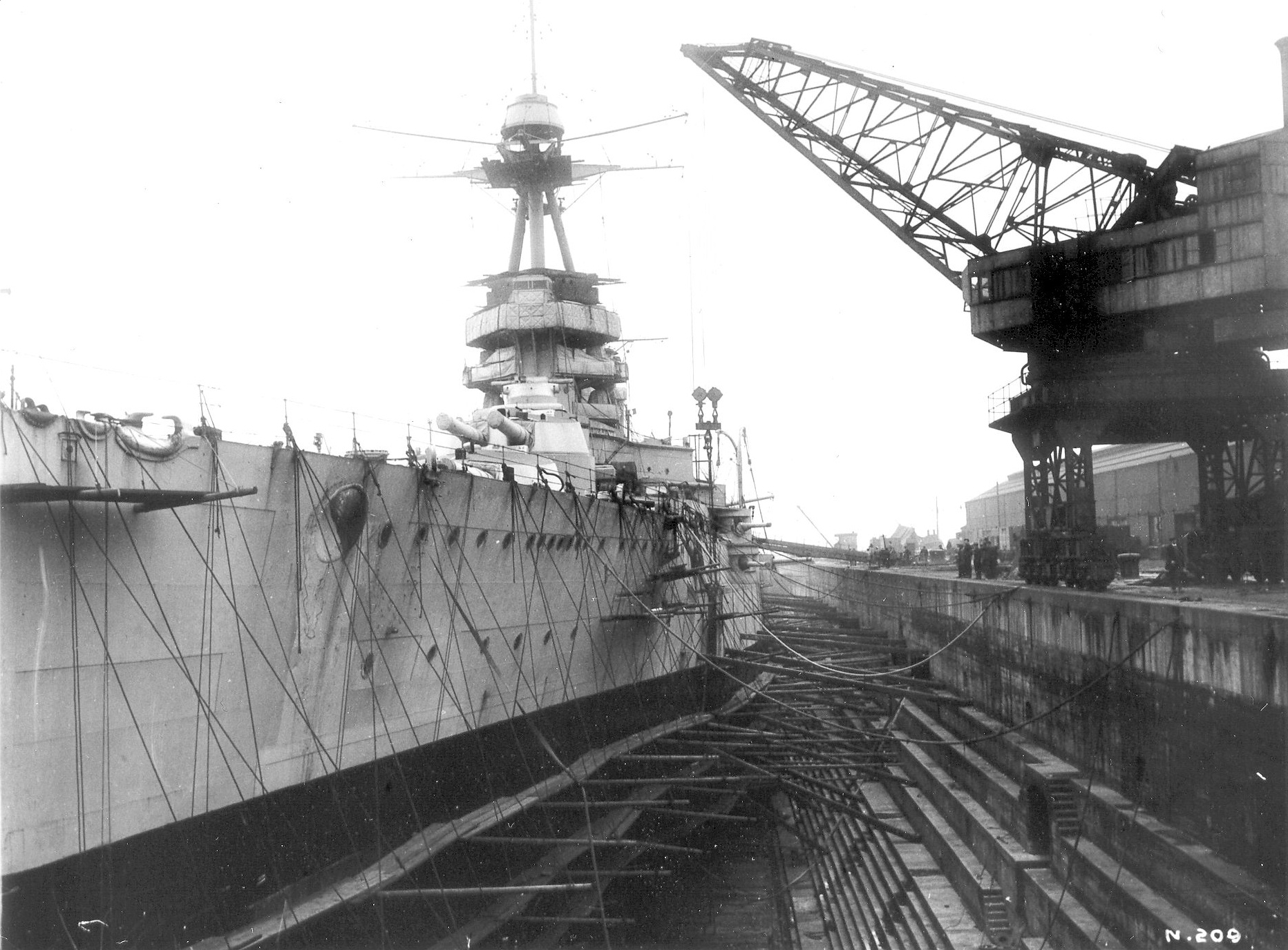 Photograph of British battlecruiser HMS Tiger in drydock. This appears to be after the Battle of Jutland (31 May 1916) and before her mainmast was moved from the original location directly behind the bridge, as seen here, to ahead of the third funnel in 1918. Other similar photographs point to this being Tiger at Rosyth during her refit 1916-1917. NOTE : The Canadian Navy Heritage website incorrectly identifies this as "A member of the King George Class of RN Battleships in the Halifax drydock".